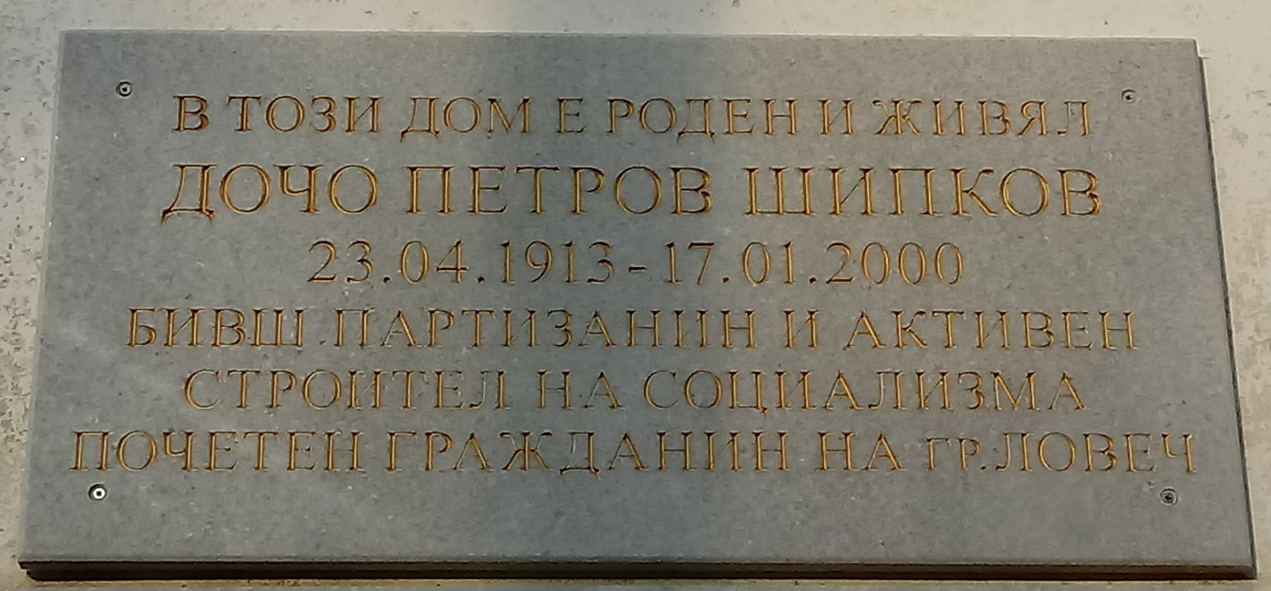 Docho Petrov Shipkov house with memorial plaque, Lovech